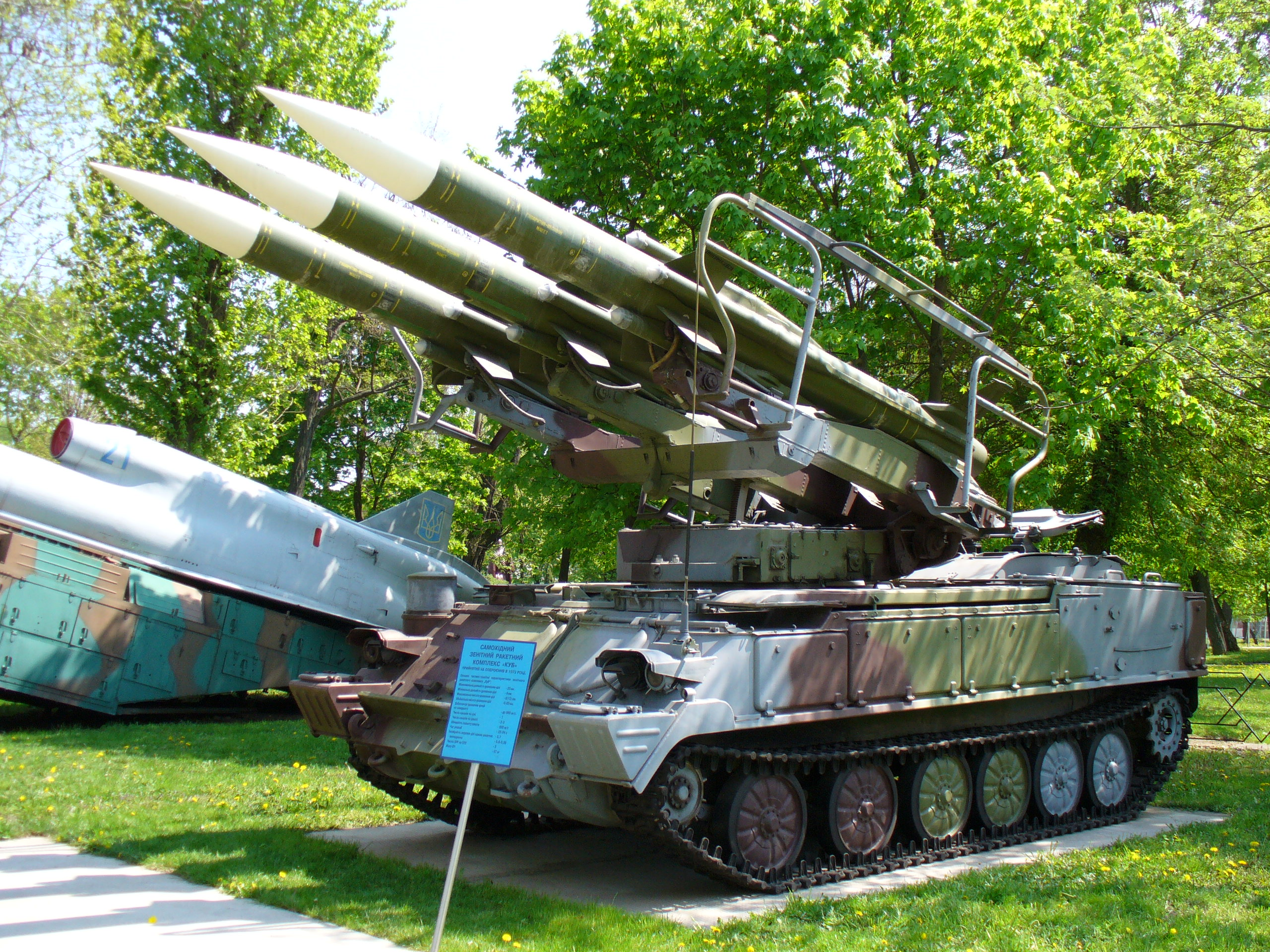 The 2K12 Kub mobile surface-to-air missile system. NATO reporting name SA-6 Gainful. Ukrainian Air Force Museum in Vinnitsa.